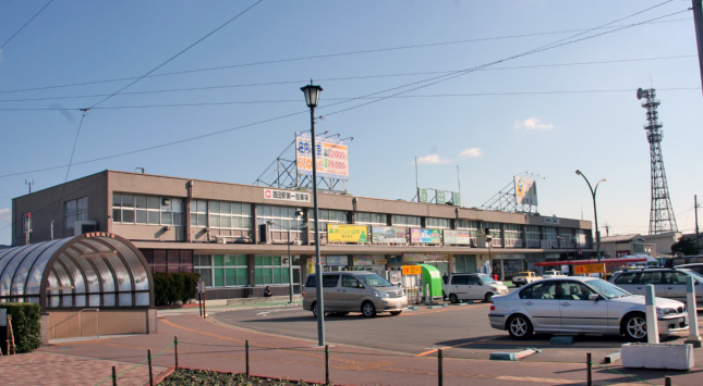 Sakata Station in Sakata, Yamagata Prefecture, Japan